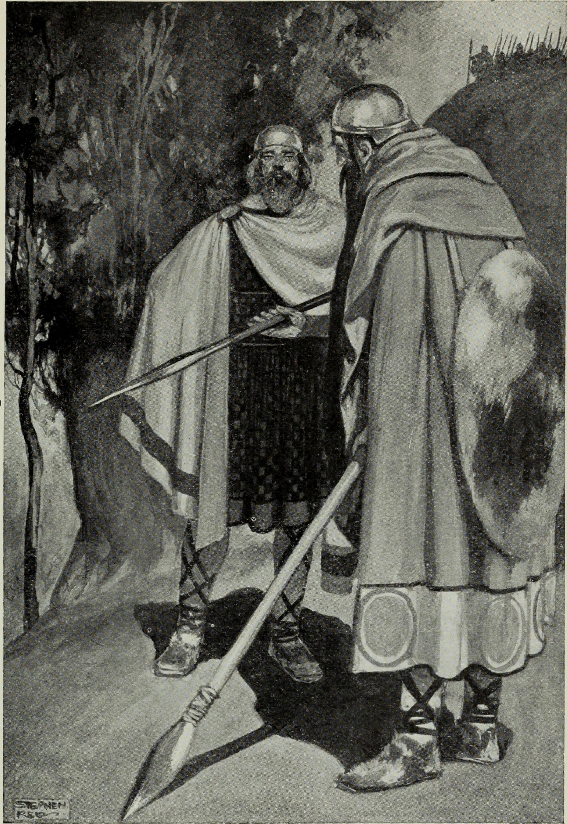 Illustration titled “The Two Ambassadors” by Stephen Reid Title: Myths and legends ; the Celtic race Year: 1910 (1910s) Authors: Rolleston, T. W. (Thomas William), 1857-1920 Subjects: Celts Celts Celtic literature Legends, Celtic Publisher: Boston : Nickerson Text Appearing Before Image: The Firbolgs now sent out one of their warriors, named Sreng, to interview the mysterious new-comers; and the People of Dana, on their side, sent a warrior named Bres to represent them. The two ambassadors examined each other's weapons with great interest. The spears of the Danaans, we are told, were light and sharp-pointed; those of the Firbolgs were heavy and blunt. To contrast the power of science with that of brute force is here the evident intention of the legend, and we are reminded of the Greek myth of the struggle of the Olympian deities with the Titans. Bres proposed to the Firbolg that the two races should divide Ireland equally between them, and join to defend it against all comers for the future. They then exchanged weapons and returned each to his own camp.